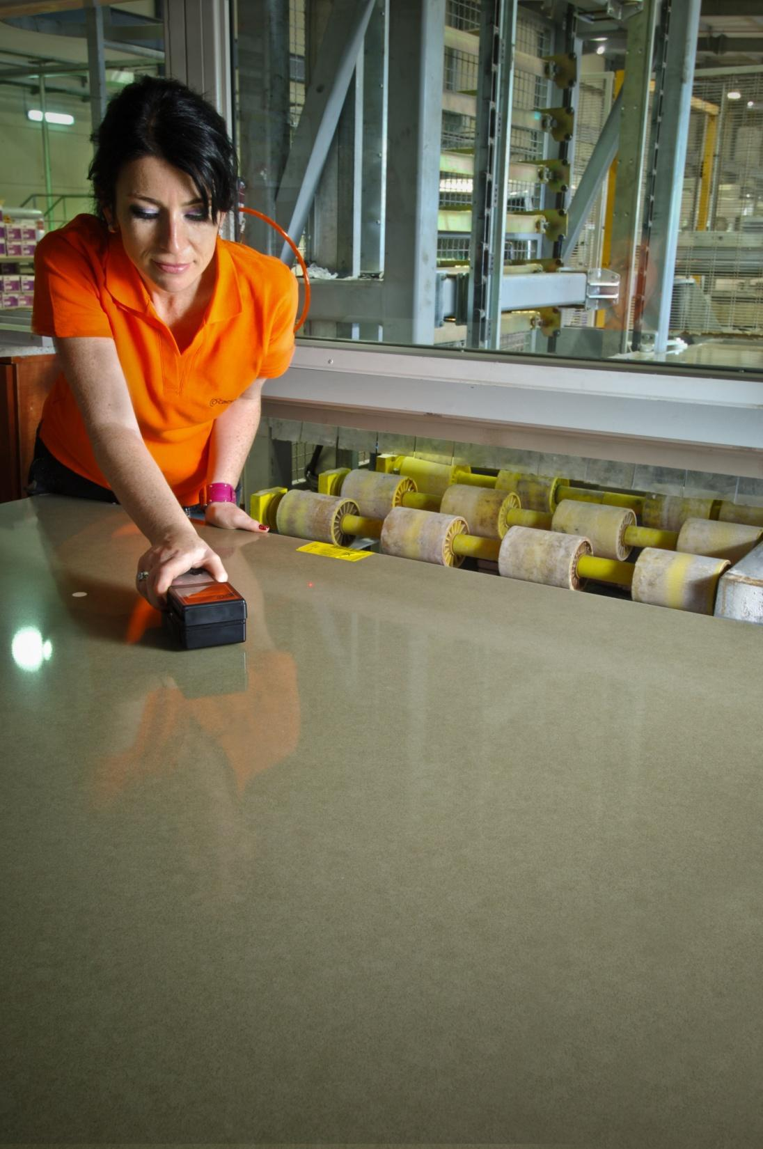 Caesarstone Quality Assurance- Every Caesarstone slab undergoes rigorous quality testing to ensure it meets the extremely high standards of color, hue and consistency